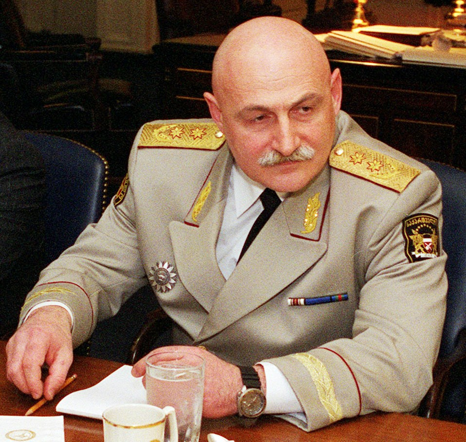 Secretary of Defense Donald H. Rumsfeld (right) meets in his Pentagon office with Minister of Defense David Tevzadze (second from right), of the Republic of Georgia, on March 16, 2001. Georgian Ambassador Tedo Japaridze (second from left) and Lt. Col. Archil Tsintsadze, the Georgian defense attaché, joined Rumsfeld and Tevzadze as they discussed a range of regional security issues of interest to both nations.